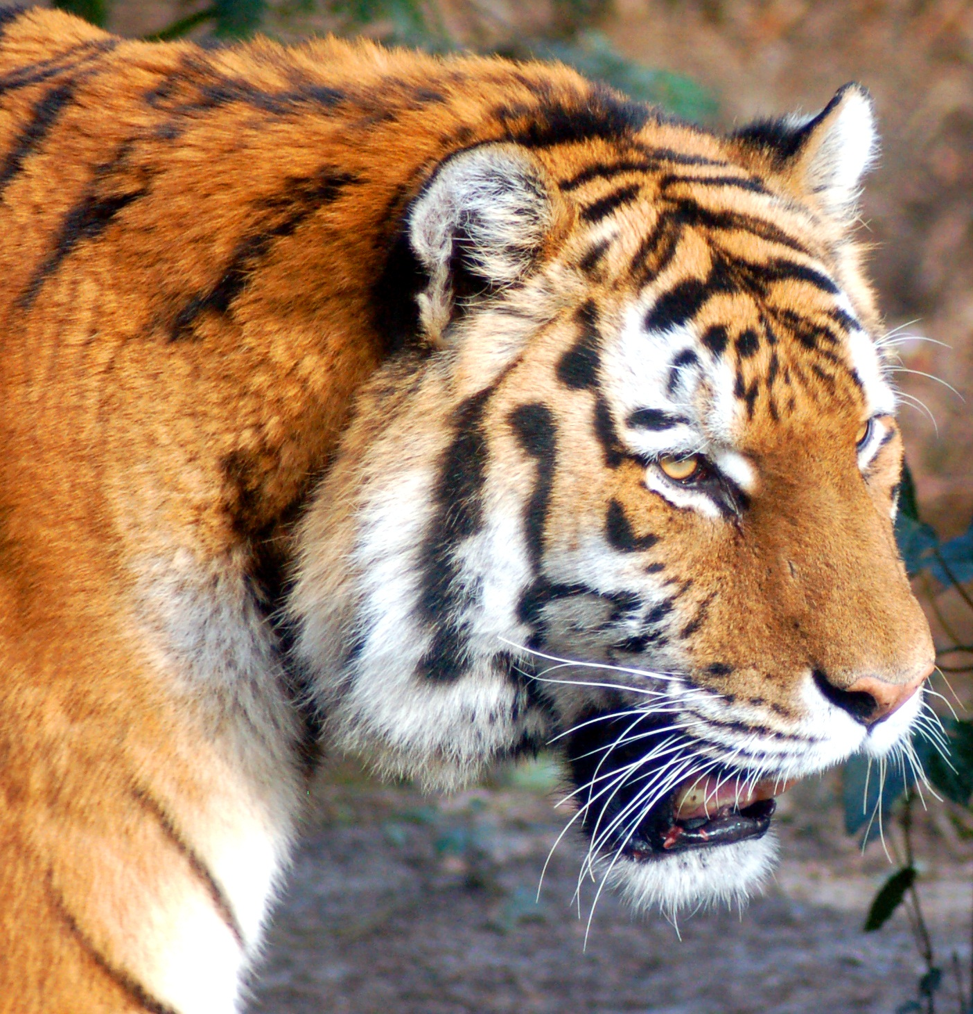 Panthera tigris altaica